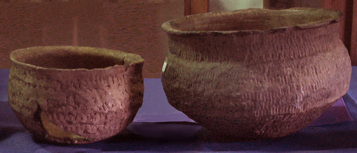 indigenous Guarani ceramics, Museum Farroupilha, in Triunfo, Rio Grando do Sul, Brazil